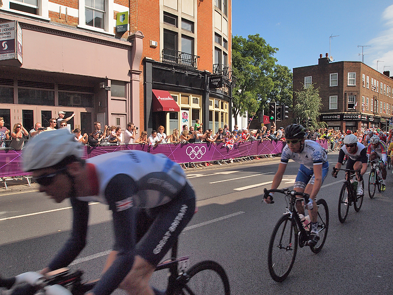 Road race. York Street, Twickenham, London.